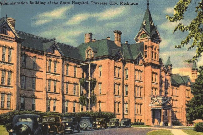 Traverse City State Hospital, Traverse City, Michigan, Kirkbride Complex, circa 1930. Copyright has expired on this postcard, if it was ever subject to copyright restrictions.